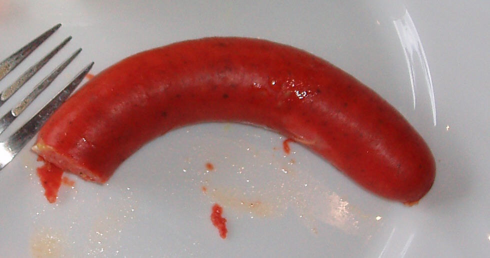 Lucanicae